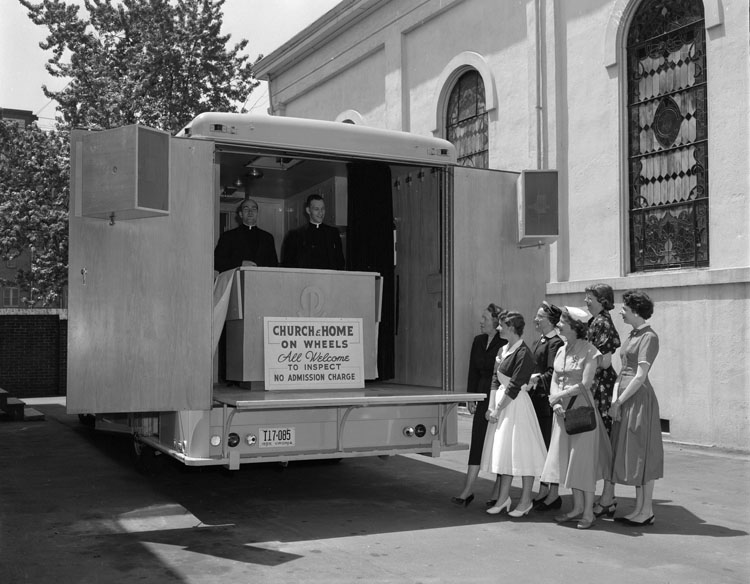 Title: Catholic trailer, church on wheels Creator: Adolph B. Rice Studio Date: May 7, 1955 Identifier: Rice Collection 616A Format: 1 negative, safety film, 4 x 5 in. Repository: Library of Virginia, Prints and Photographs, 800 E. Broad St., Richmond, VA, 23219, USA, :8881/R